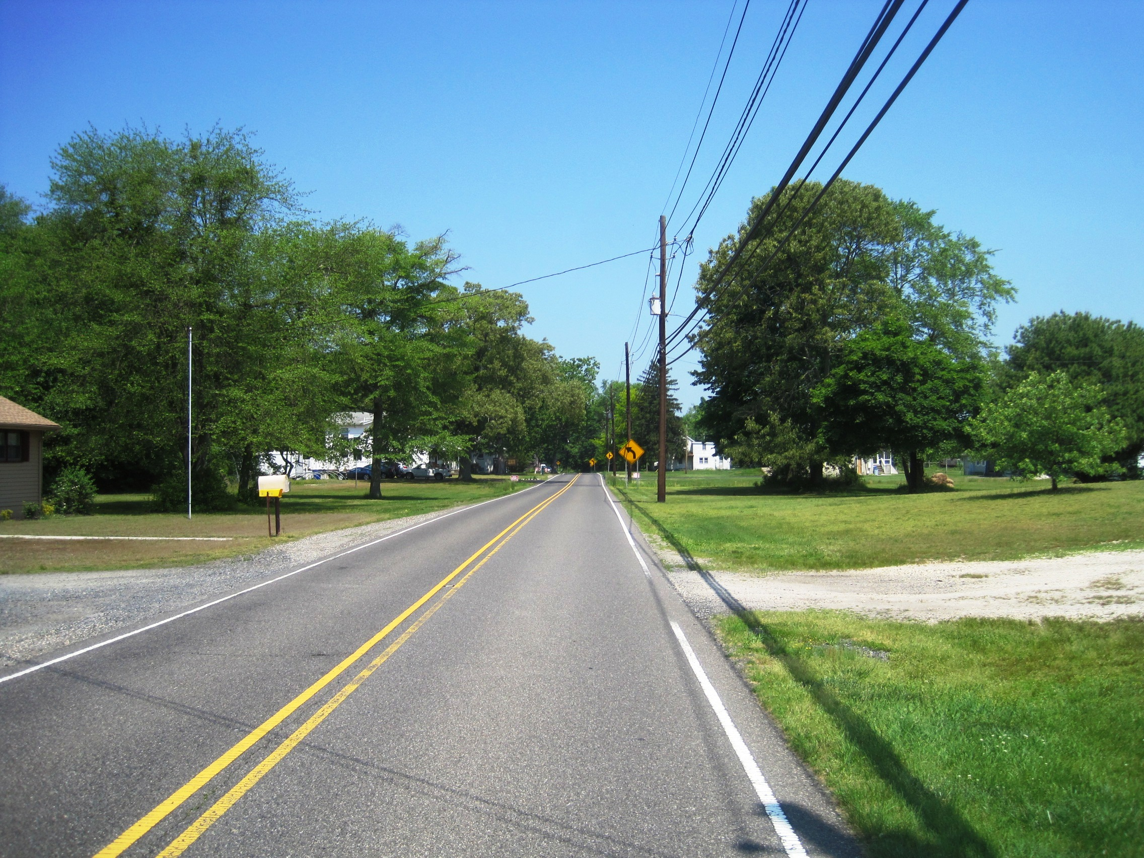 Photograph showing Retreat, New Jersey, an unincorporated community within Southampton Township. Photo was taken along northbound Big Hill Road south of Retreat Road.